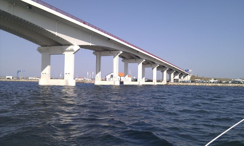 Barra Bridge